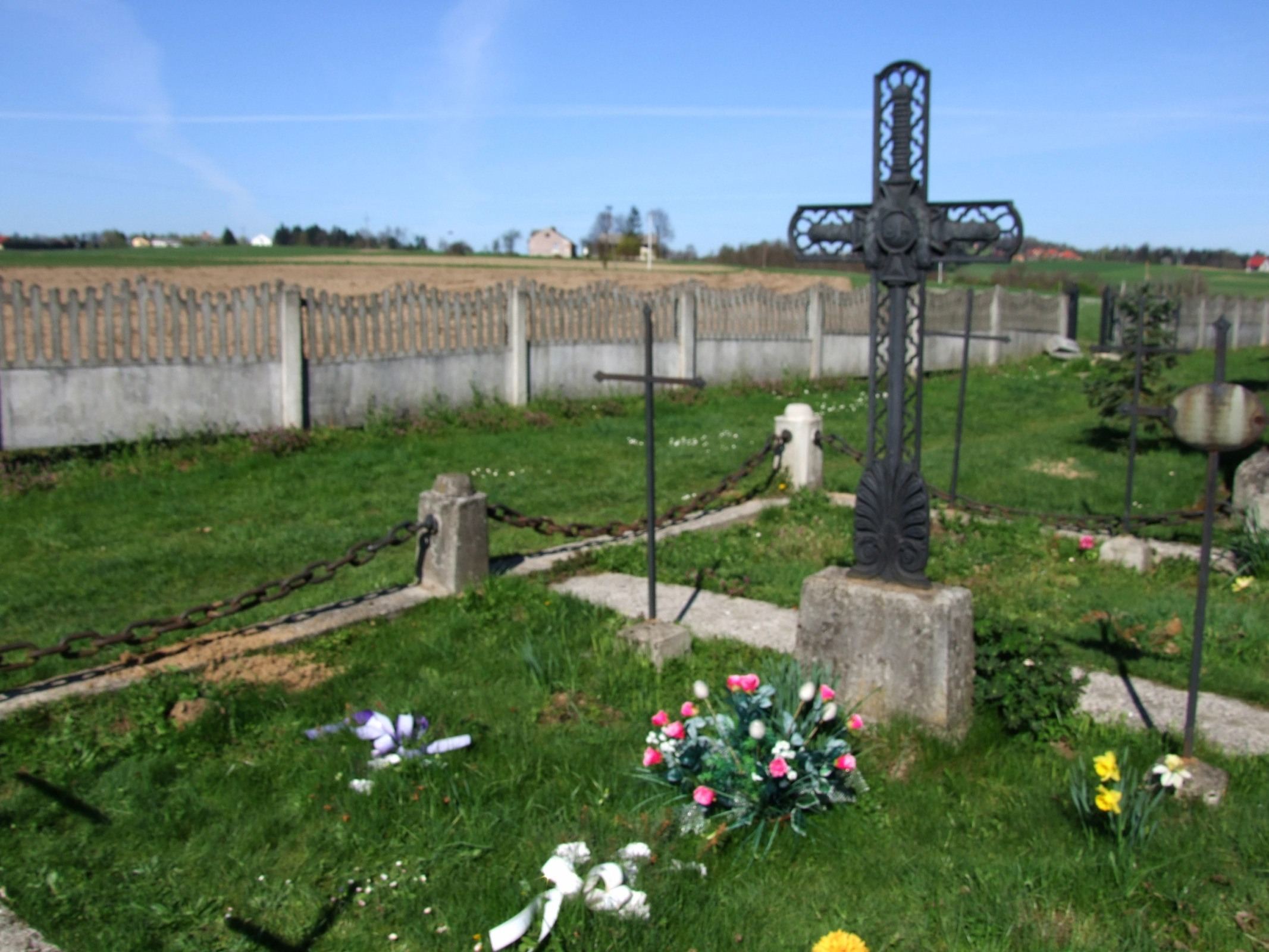 World War I Cemetery nr 342 in Łapanów